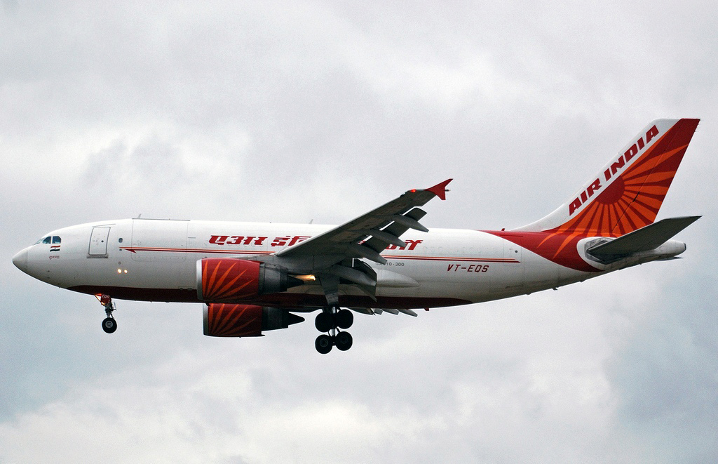 Airbus A310-304 VT-EQS Air-India Cargo Frankfurt am Main EDDF (08 December 2007) by Pieter van Marion.